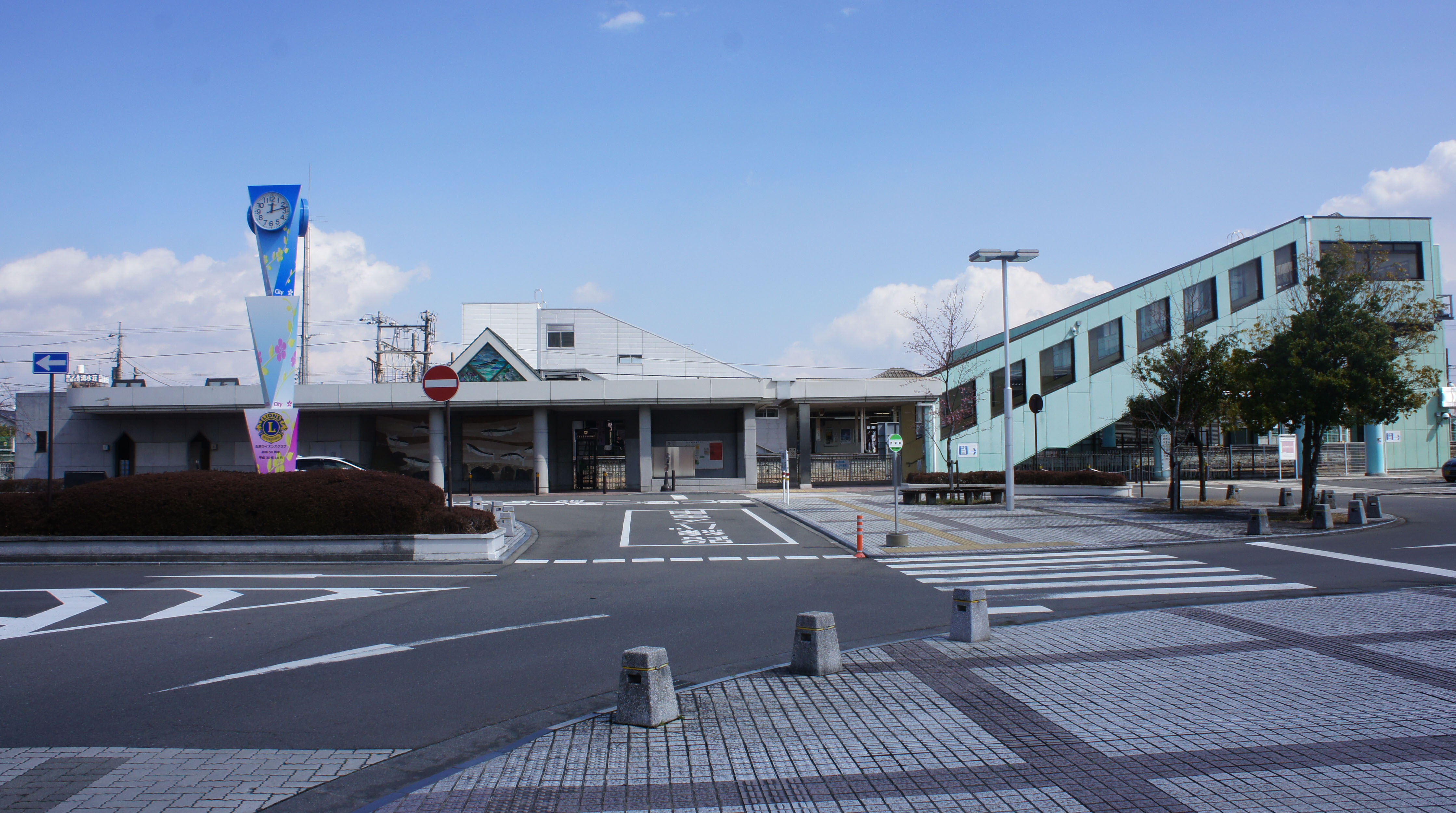 West Exit of JR Tohoku-Main-Line (Utsunomiya-Line) Ujiie Station Sony NEX-3